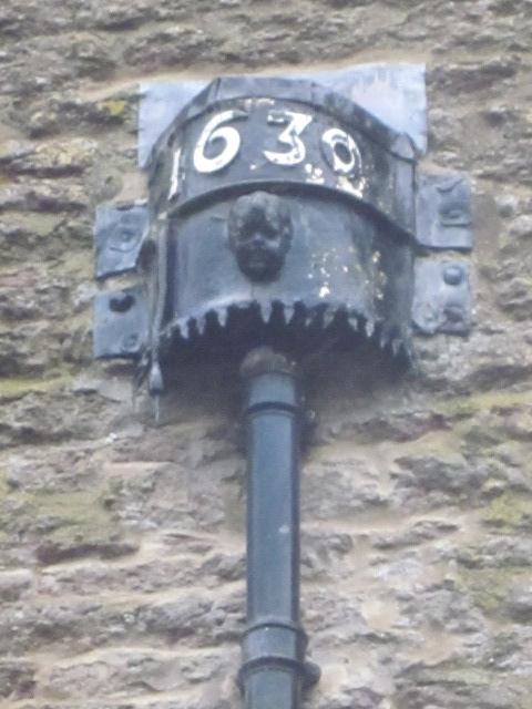 A rainwater head, dated 1630, of Dowsby Hall, a Grade II* listed early 17th-century Jacobean house situated in Dowsby, 6 miles (10 km) to the to the north of Bourne in Lincolnshire, England.